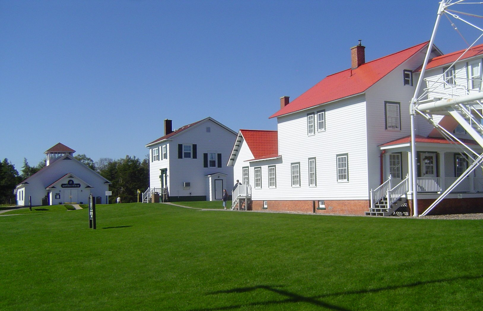 The Great Lakes Shipwreck Museum on Lake Superior at Whitefish Point, Michigan, United States. It occupies the historic Whitefish Point Lighthouse, which is listed on the US National Register of Historic Places (NRHP). NRHP reference number 73000947